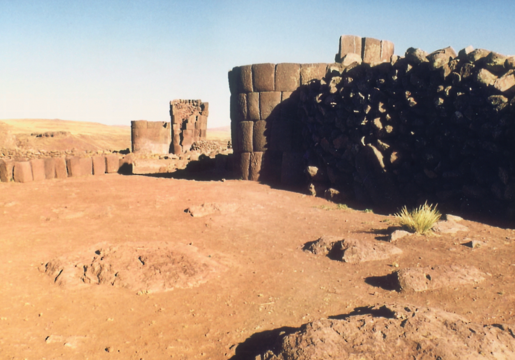 Sillustani, tomb towers (chulpas) of the Colla culture (13th - 15th century); near Puno, Peru